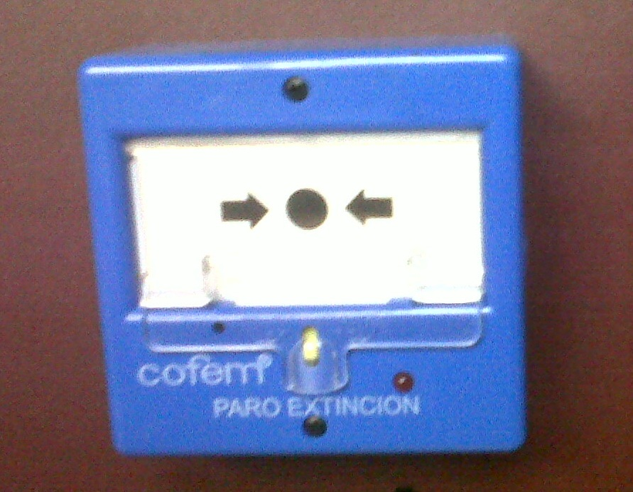 manual call point STOP device